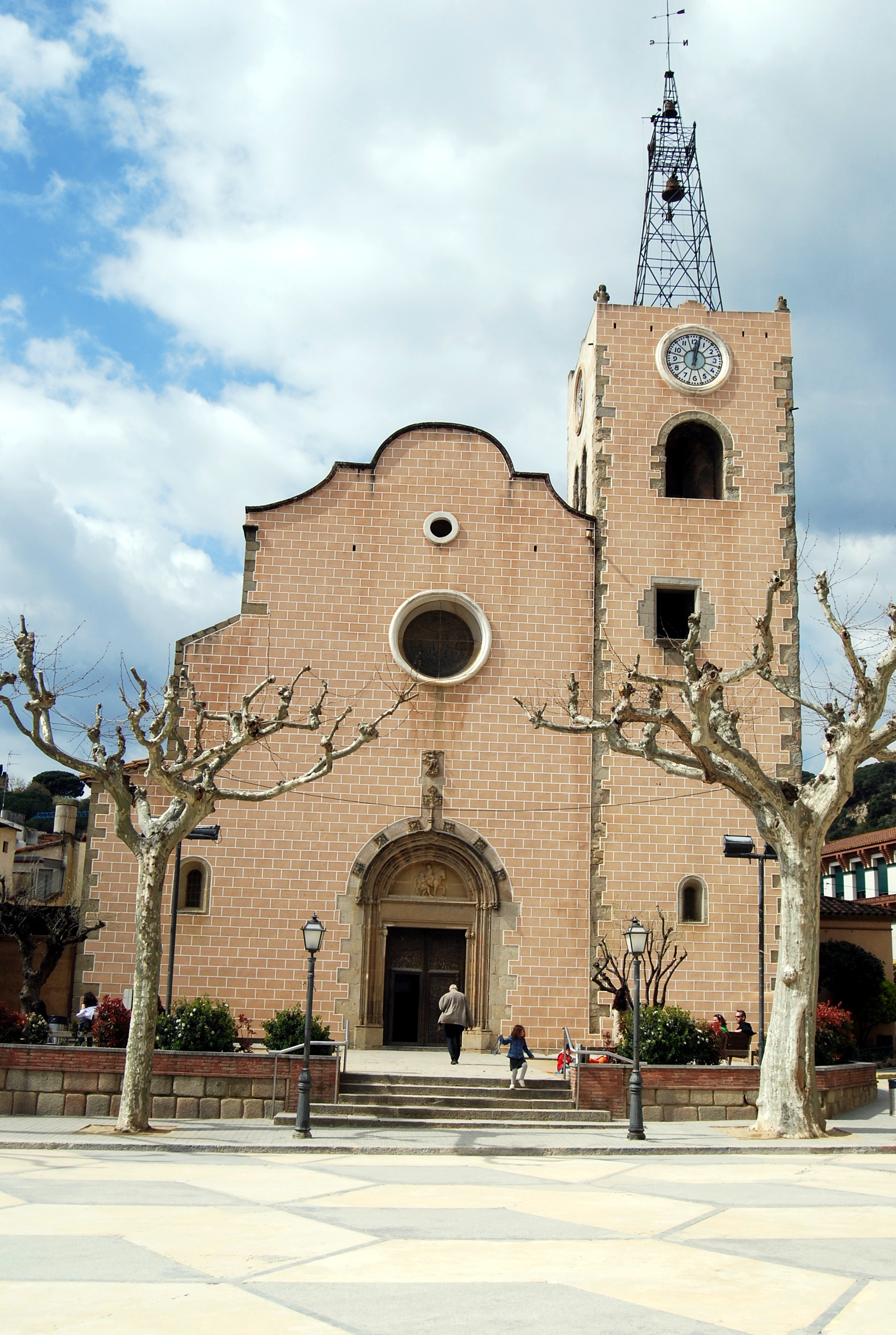 Sant Martí church, at Arenys de Munt (Catalonia).